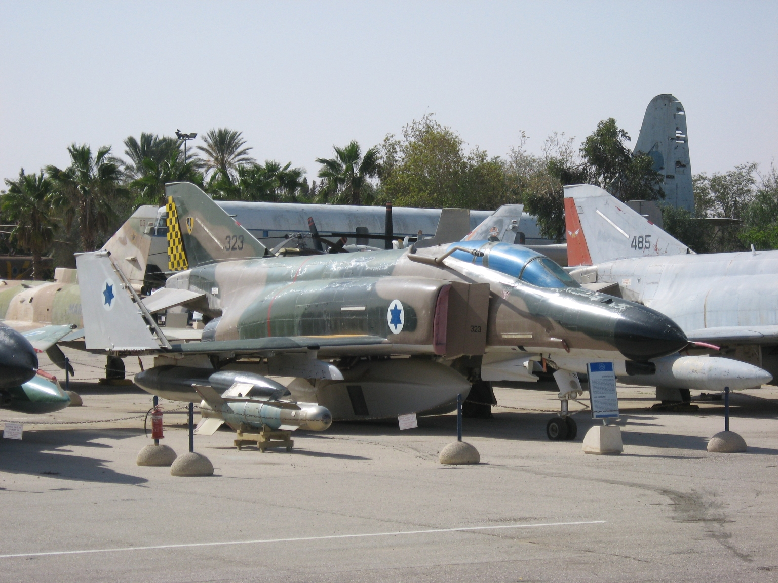 Israeli Air Force 69 Squadron F-4E Phantom II at the Israeli Air Force Museum in Hatzerim. Carries a G139 HIAC-1 camera pod .